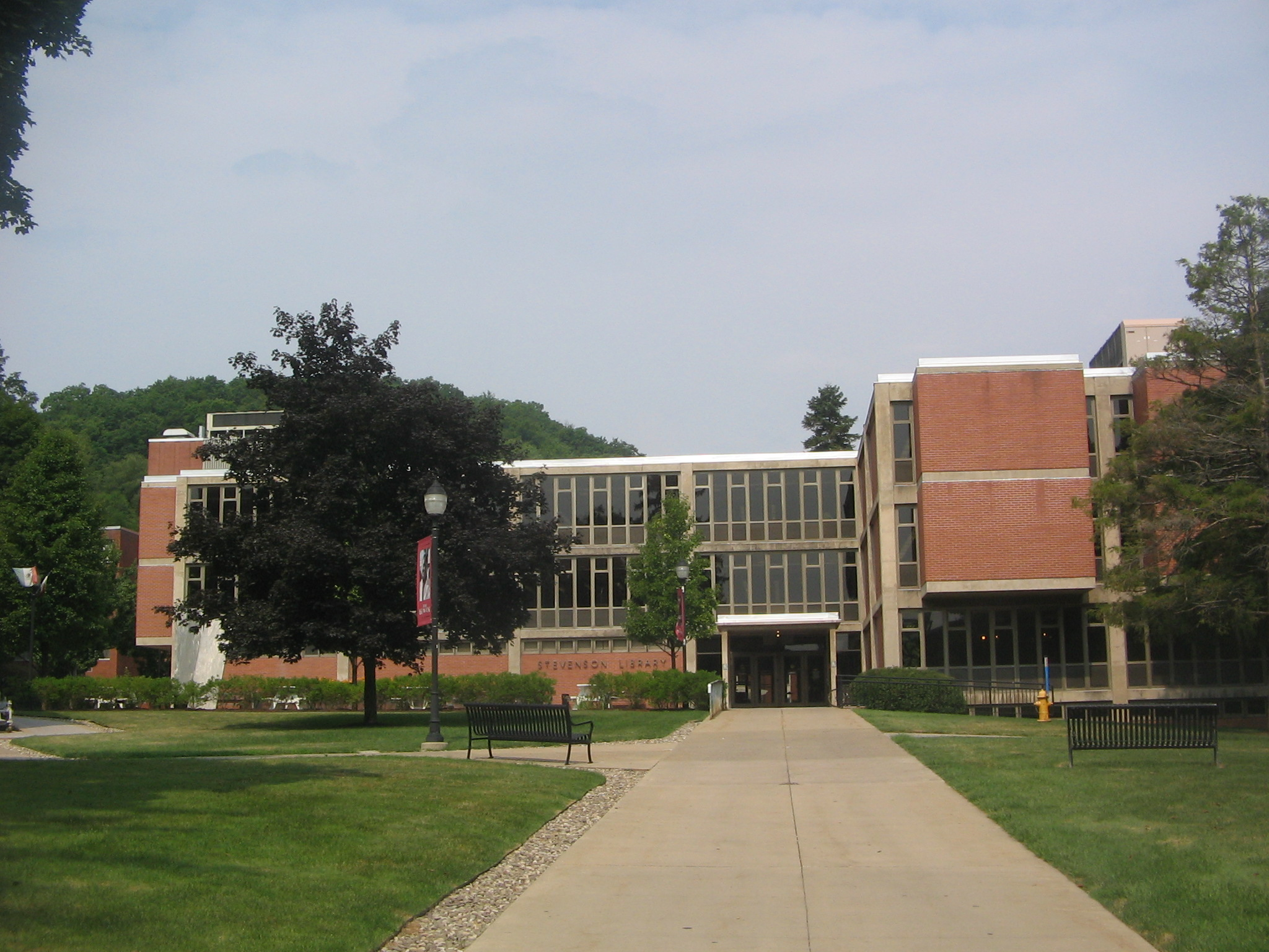 Stevenson Library at Lock Haven University, in Lock Haven, Clinton County, Pennsylvania, USA